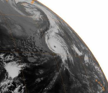 Source: ftp://eclipse.ncdc.noaa.gov/pub/isccp/b1/.D2790P/images/1994/252/Img-1994-09-09-00-GMS-4-IR.jpg